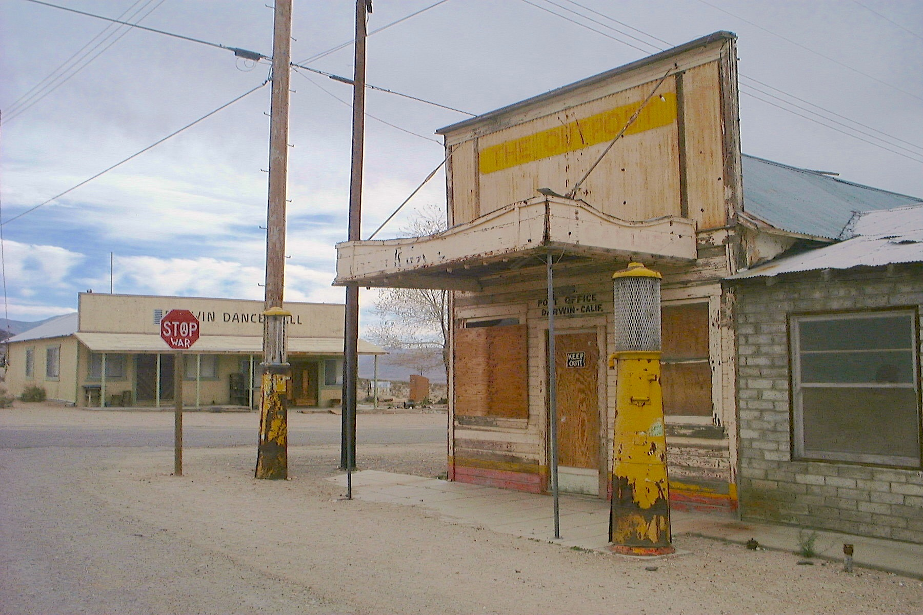 Darwin, California Photo: LHOON Featured on Flickr